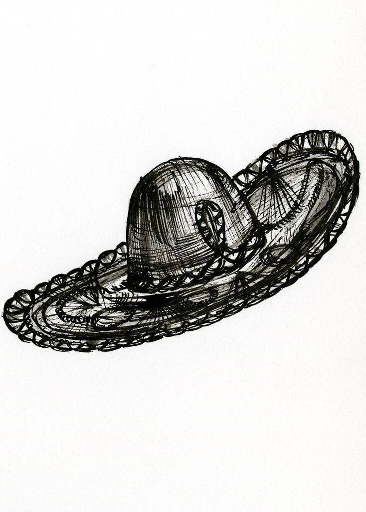 The description of the concept in this drawing is: High-crowned hats made of felt or straw with a very wide brim usually rolled at the edges, worn especially in the American Southwest and Mexico. (AAT)